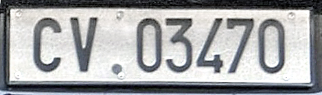 license plate of Vatican City with V international vehicle registration oval